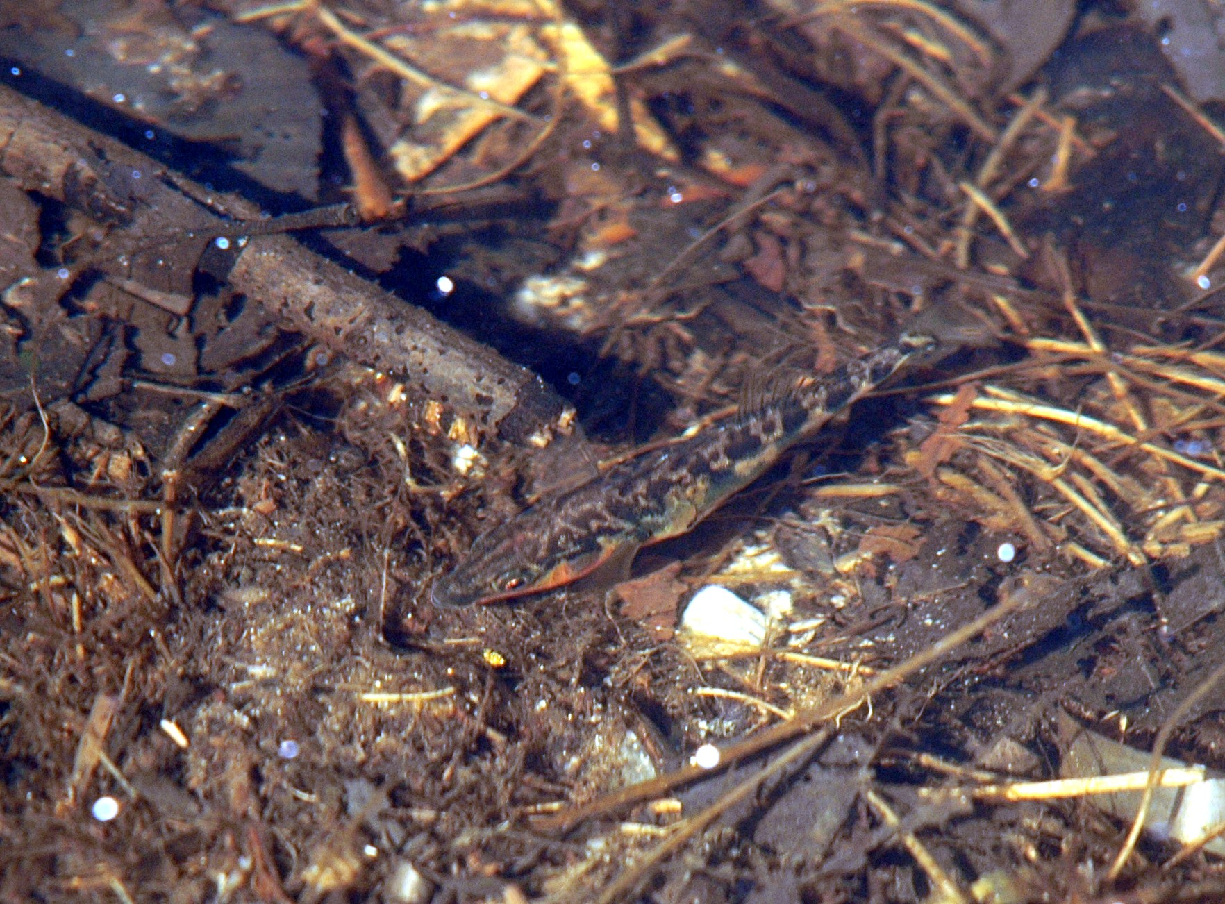 male Three-spined stickleback Gasterosteus aculeatus fanning his nest (brood care)